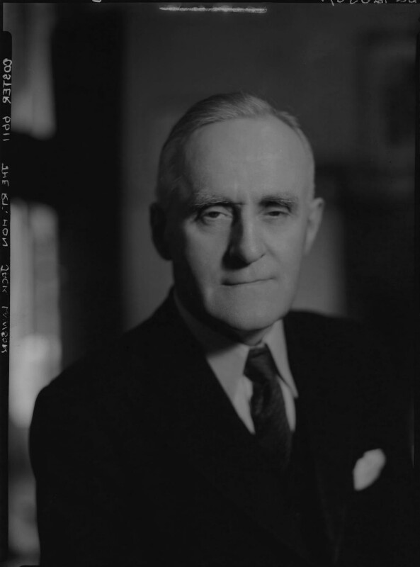 half-plate film negative